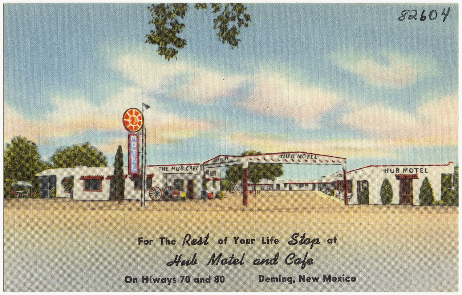 File name: 06_10_015614 Title: For the rest of your life stop at Hub Motel and Café, on Highway 70 and 80, Deming, New Mexico Created/Published: Alfred Mc Garr Adv. Ser., Albuquerque, N. M. Date issued: 1930 - 1945 (approximate) Physical description: 1 print (postcard) : linen texture, color ; 3 1/2 x 5 1/2 in. Genre: Postcards Subjects: Motels Collection: The Tichnor Brothers Collection Location: Boston Public Library, Print Department Rights: No known restrictions Flickr data on 2011-08-17: Camera: Epson Exp10000XL10000 Tags: postcard, tichnor brothers, New Mexico License: CC BY 2.0 User: Boston Public Library